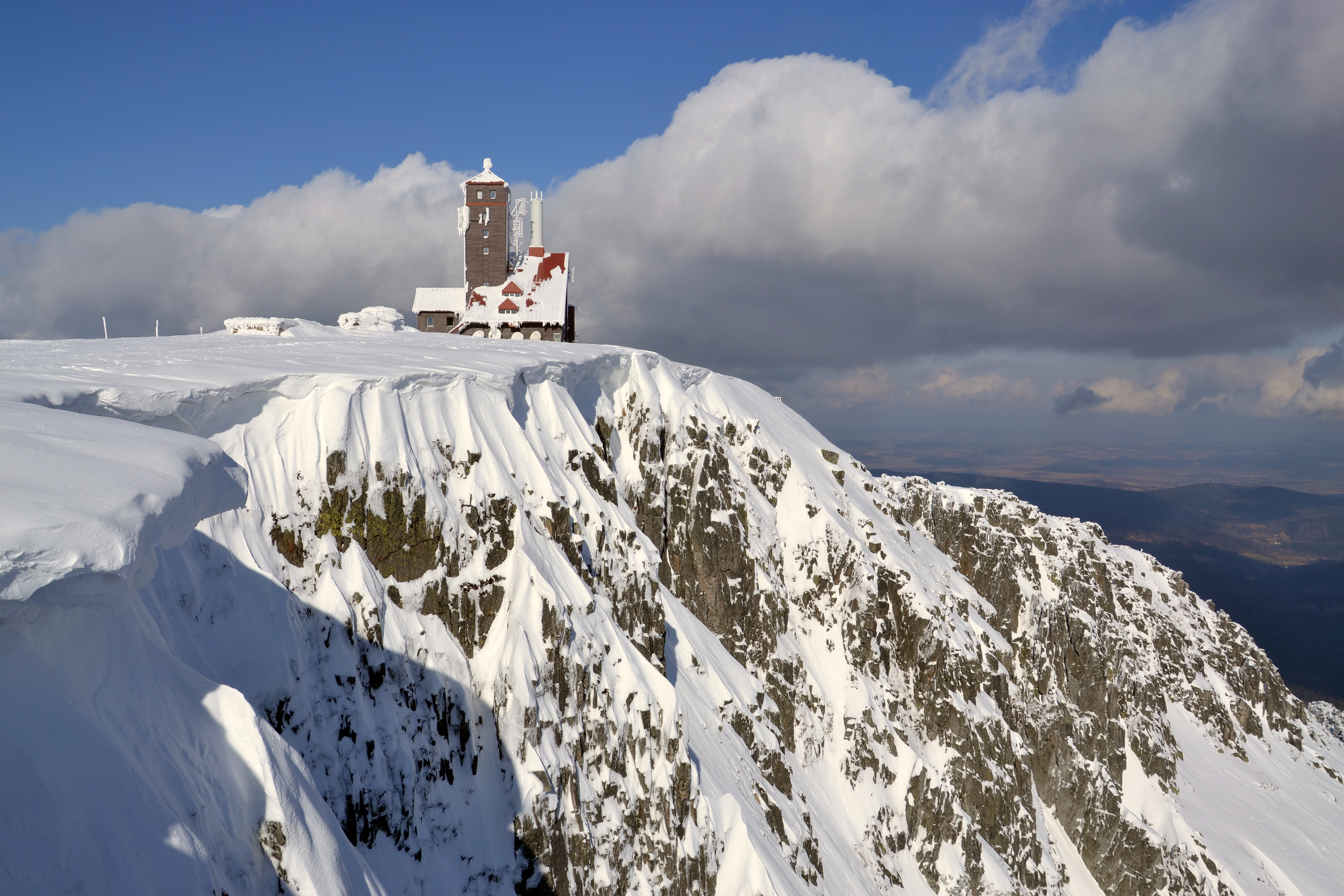 Śnieżne Kotły (Snežné jámy, Schneegruben), Krkonoše mountains, Poland